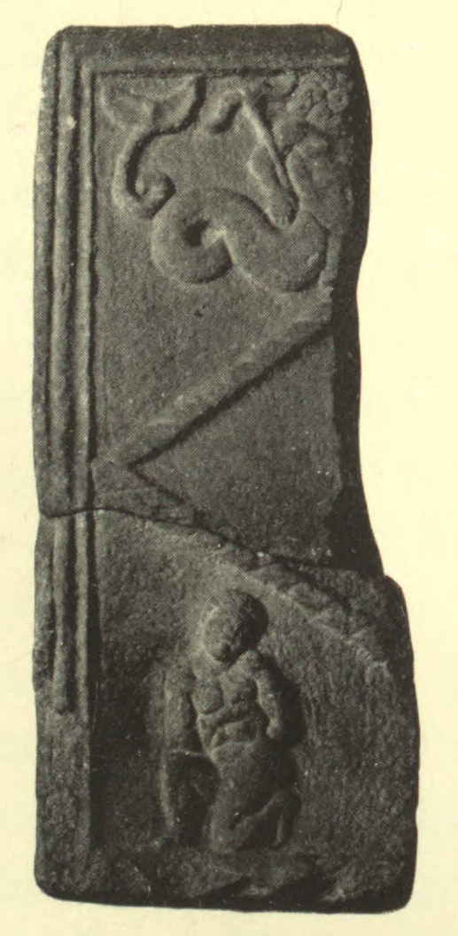 Roman Distance slab found at Arniebog Farm, Westerwood, Cumbernauld from George MacDonald's The Roman Wall in Scotland 1st edn.